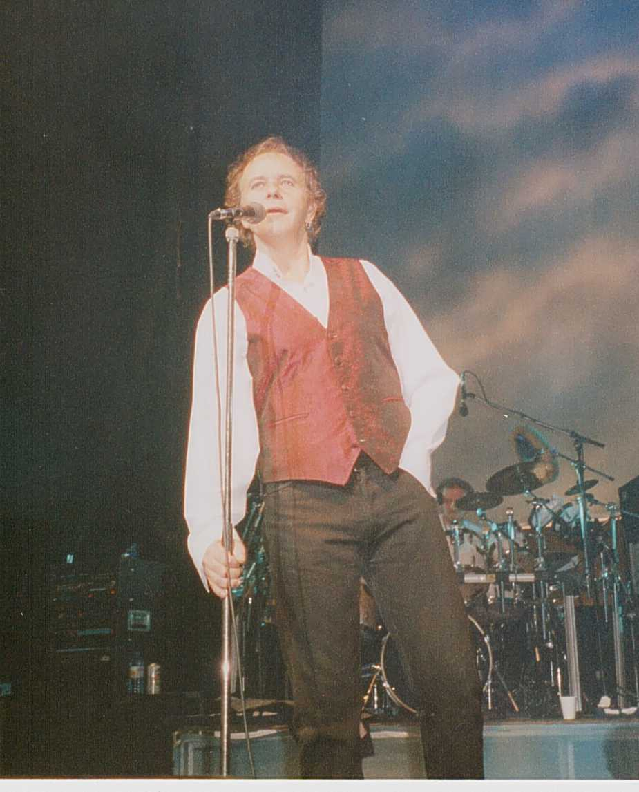 David Essex OBE in concert in London, UK